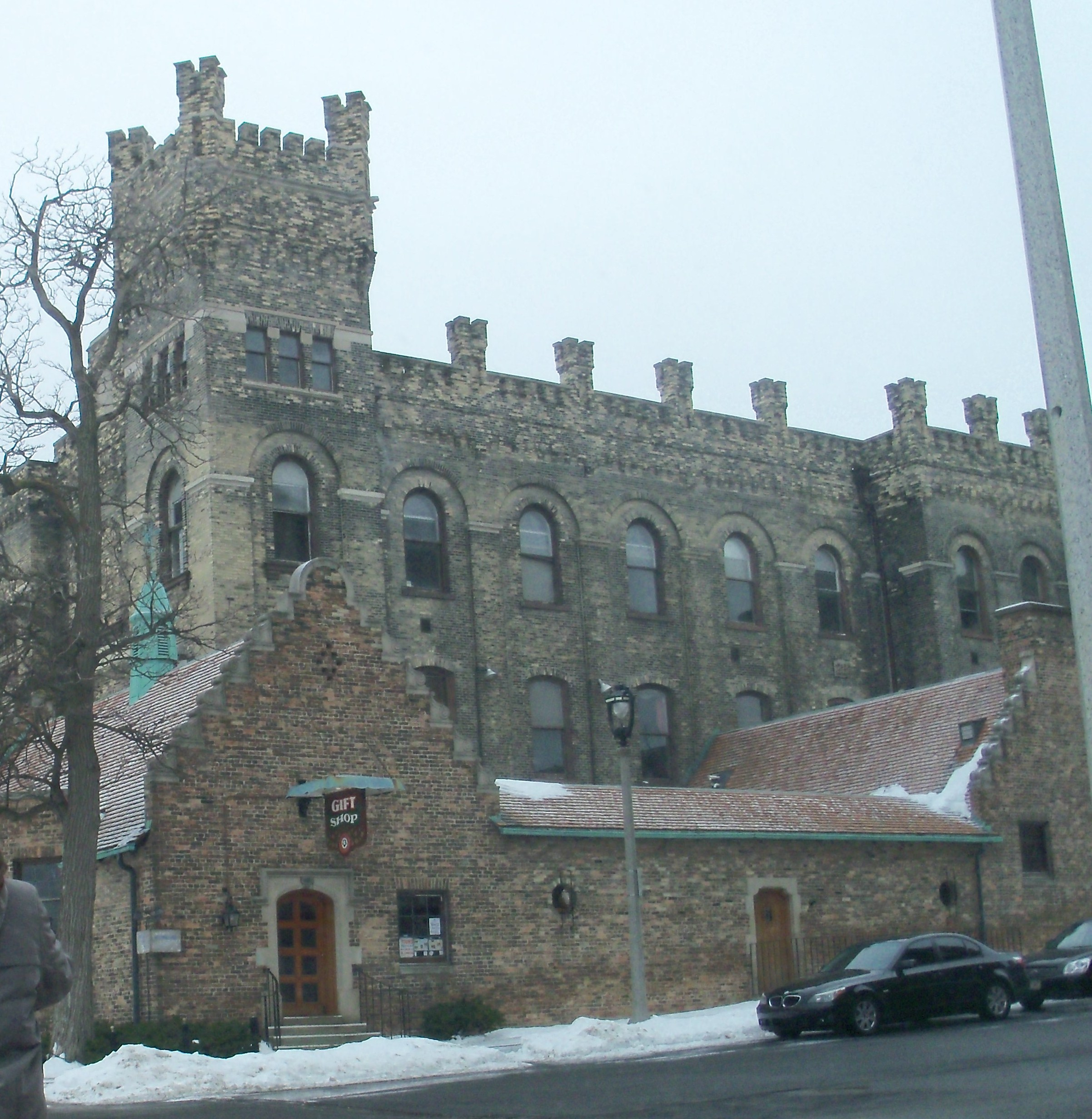 Outside photo of Best Place at the Historic Pabst Brewery, formerly the Pabst Brewing Company corporate offices and visitor's center. This show was taken from 9th and Juneau looking south-southwest.